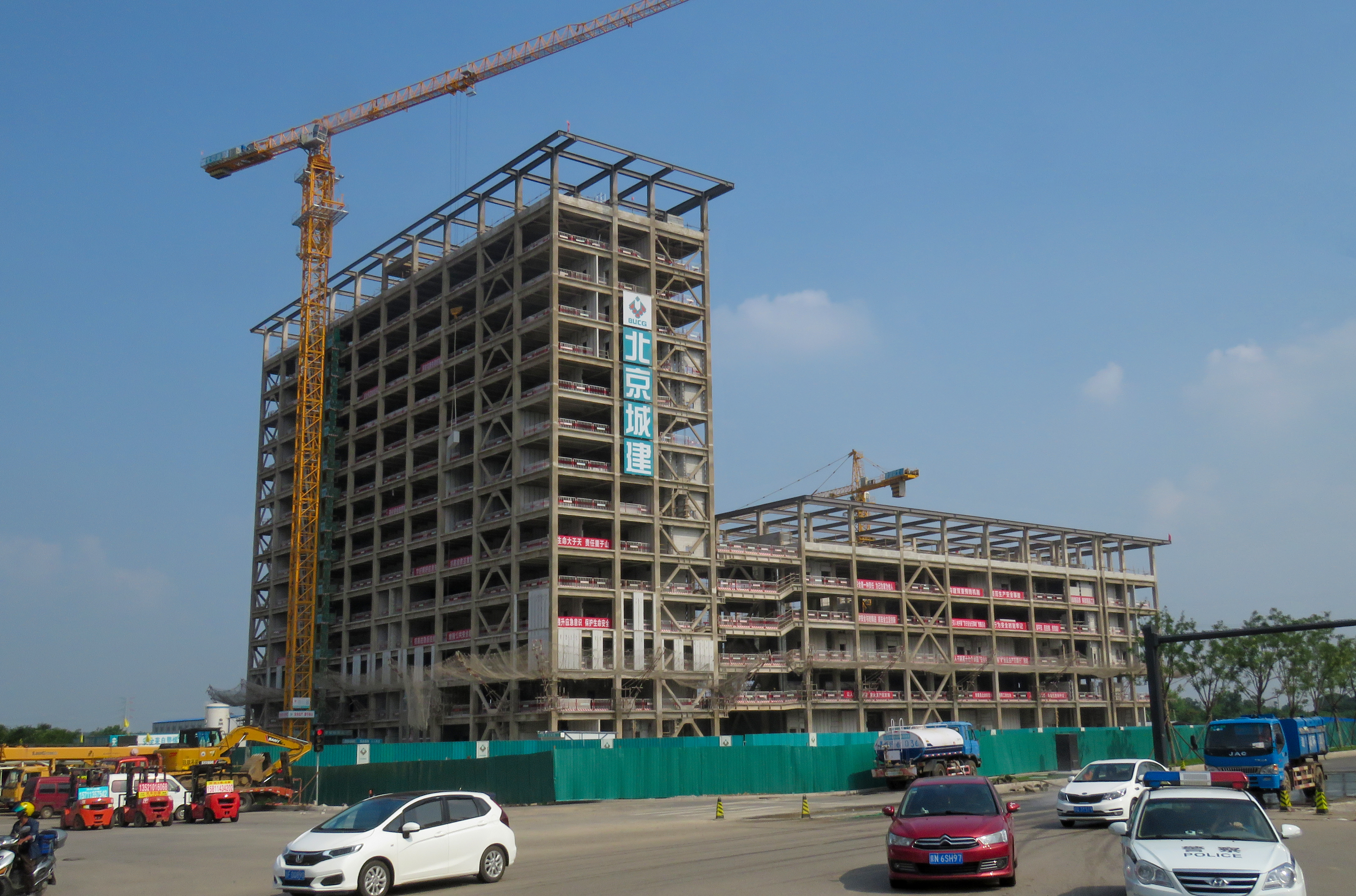 Judging from its location and plans, this is the northwest building of the east campus of Renmin University.